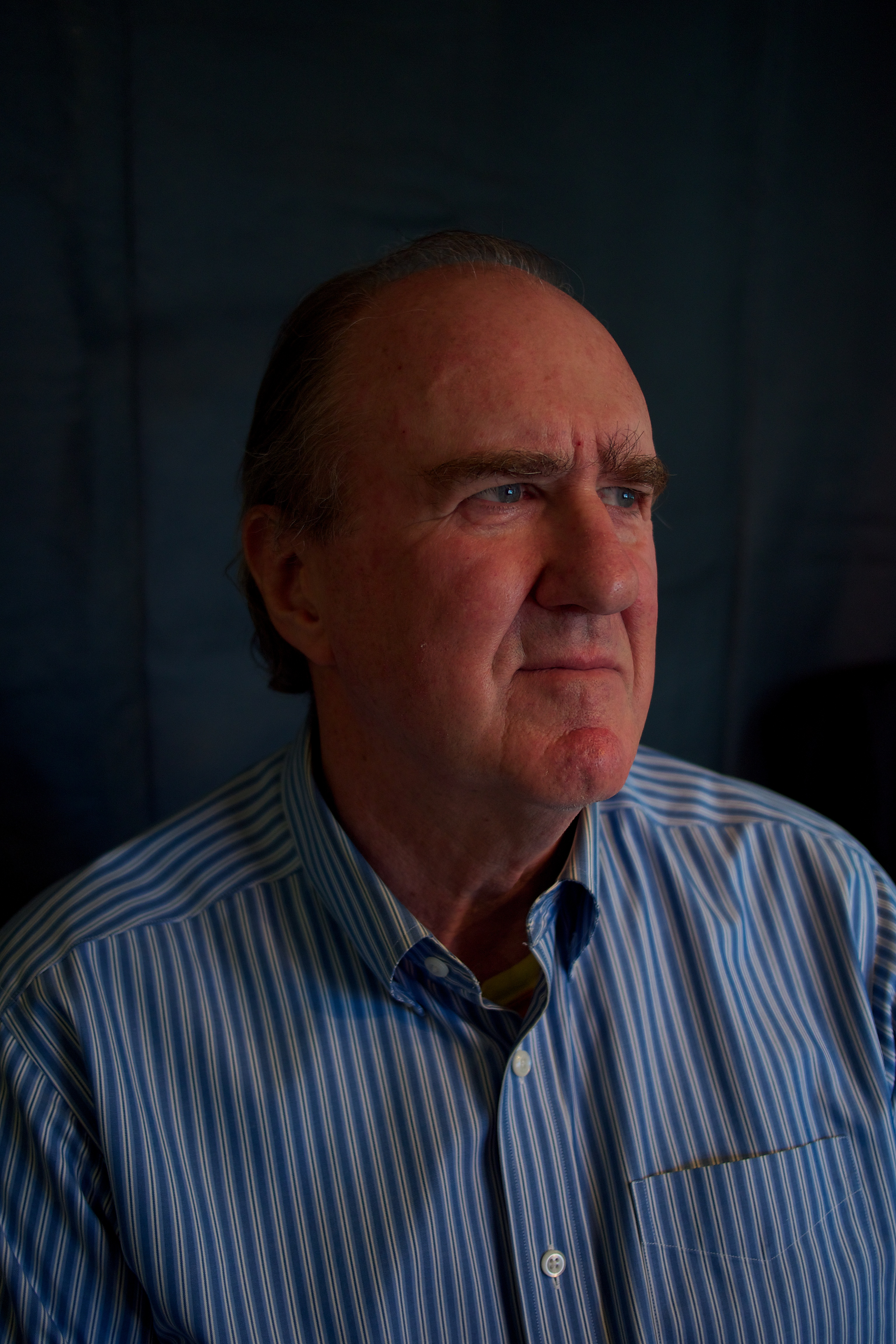 Photograph of Clifford A Henricksen September 18, 2014